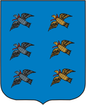 Torzhok (Tver oblast), coat of arms (1780)